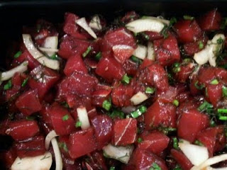 Ahi tuna with shoyu and onion seasoning